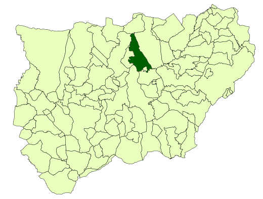 Situation of the municipality of Navas de Tolosa (Jaén, Spain).